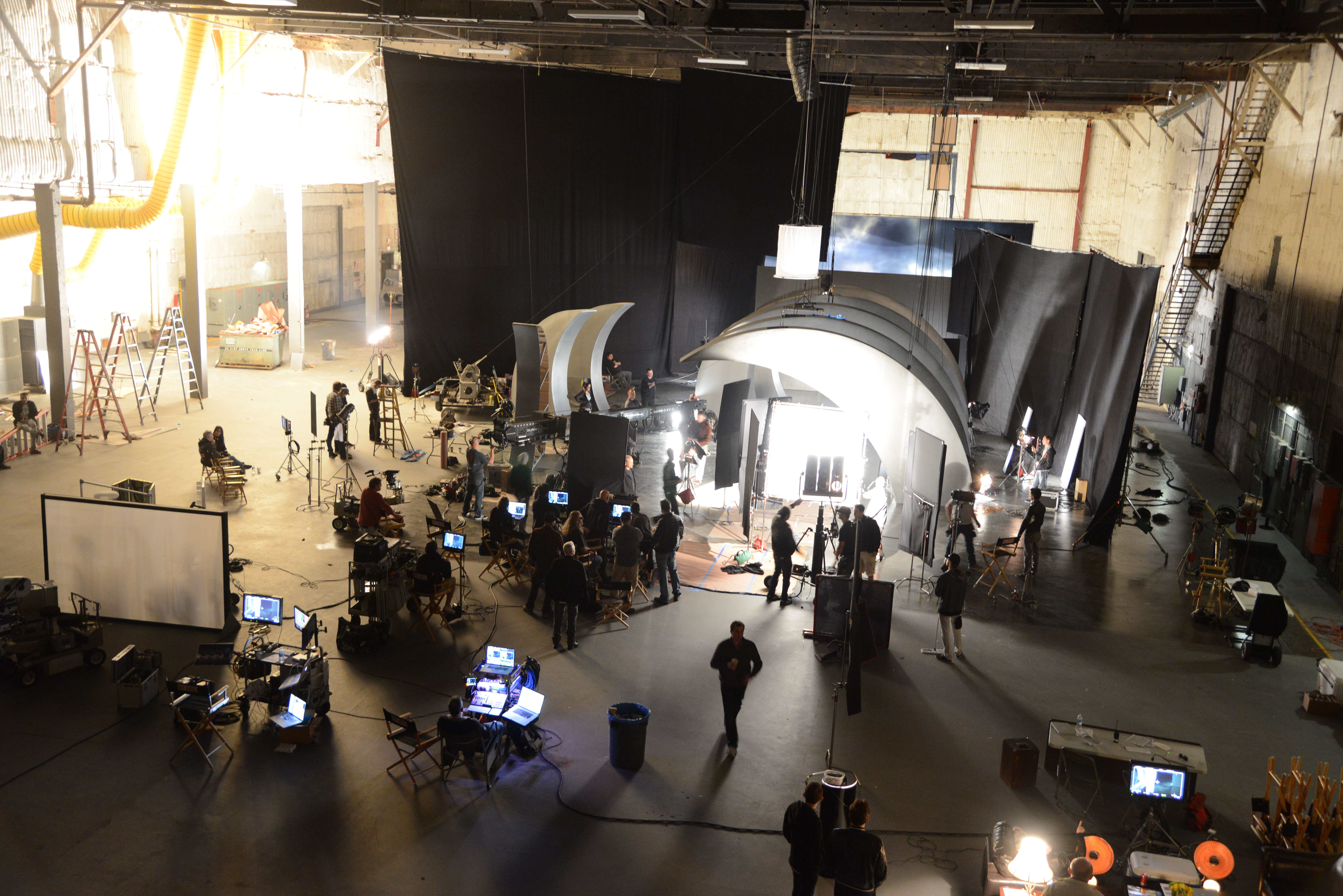 The Culver Studios commercial in progress.